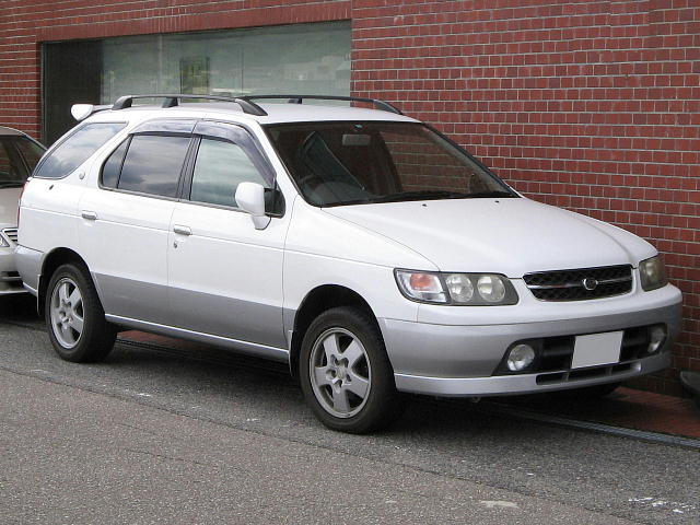 Nissan "R'nessa" (N30) 1997/10-2000/1